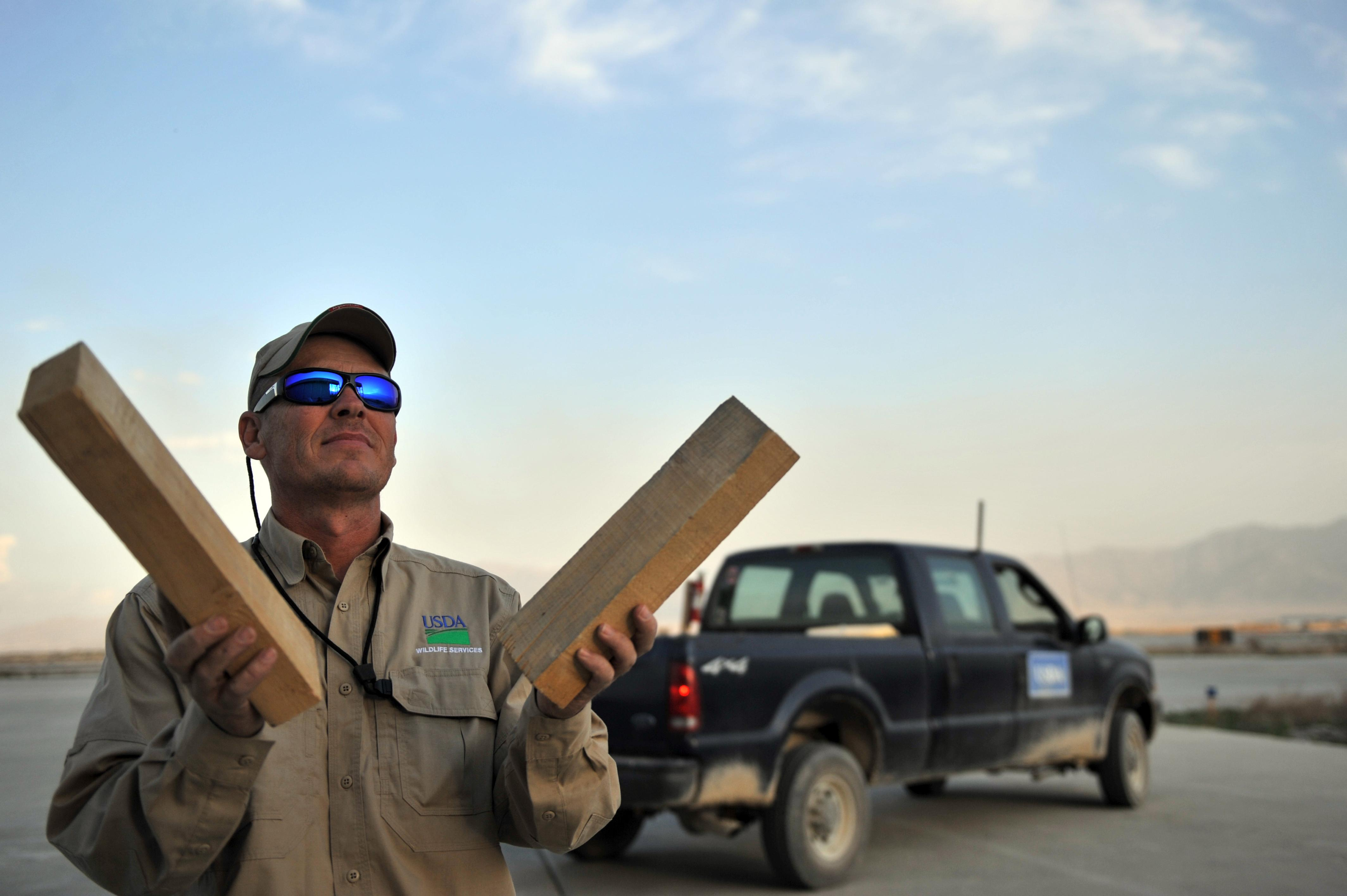 Eddie Earwood, U.S. Department of Agriculture Wildlife Services biologist, uses a clap-board method to disband birds that have been lingering in or around the hangars at Bagram Air Field, Afghanistan, April 13. Earwood, assigned to the 455th Air Expeditionary Wing Safety, routinely checks different locations on and around the flightline to ensure there are no potential health and safety hazards. Unit: 455th Air Expeditionary Wing